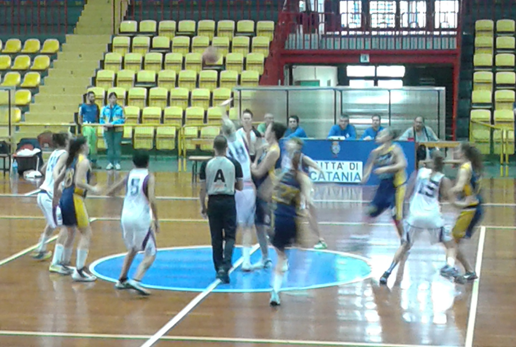 Jump ball in Olympia Catania - Ants Viterbo, first match of Italian A2 female basketball league.